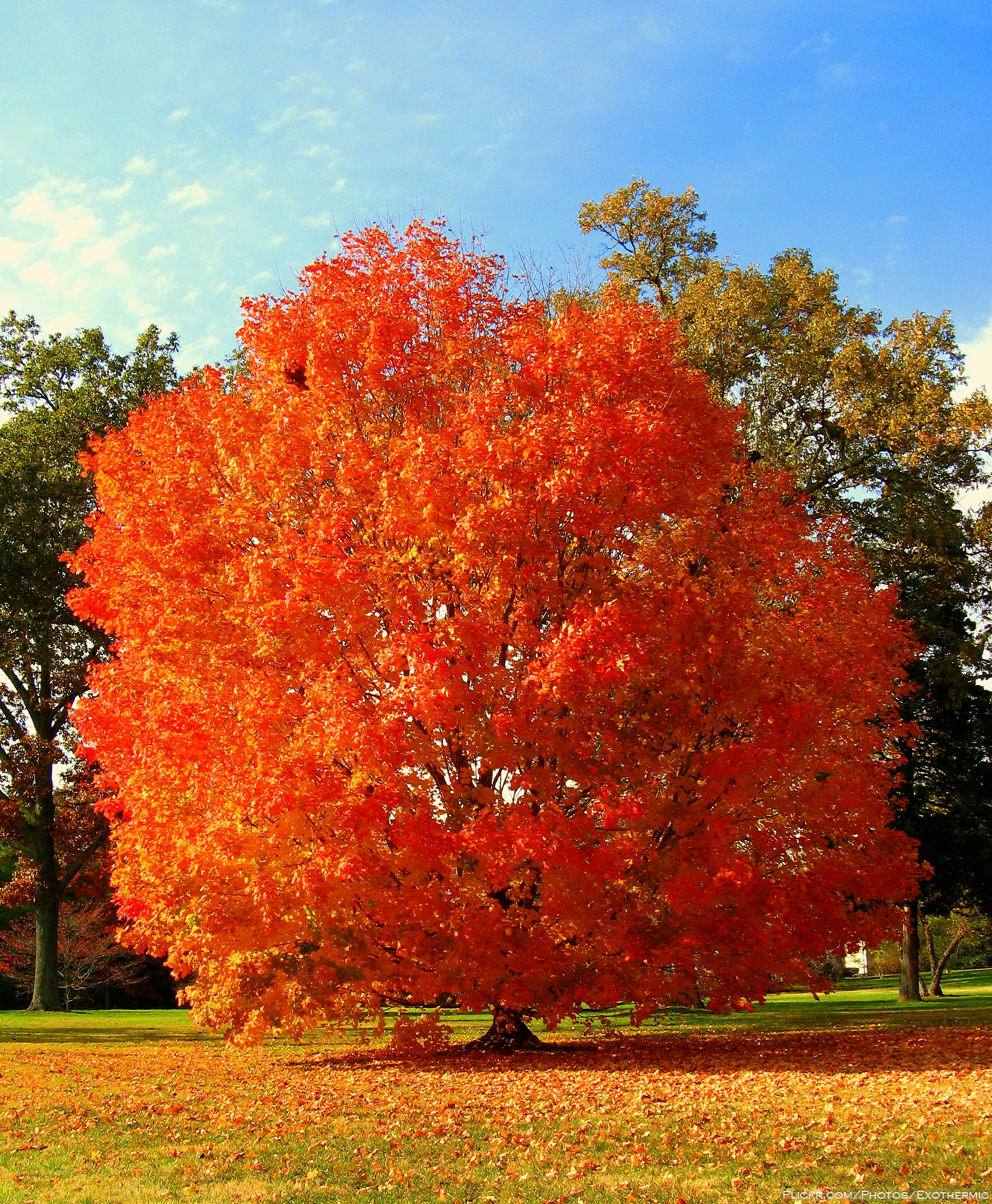 So here is my obligatory fall color photo for the season. I actually found something worthwhile to photograph in Tullahoma (where I live). The previous day, I was driving past and the color caught my attention. Since I worked that day, I had to wait till the next day to take the picture. I was hoping it was not going to be cloudy or the leaves had not changed colors in that time span. This my record for the shortest time between capturing an image, processing it, and uploading it to Flickr: 37 Minutes. The photo was taken at 13:40, uploaded to my home computer at 13:54, and uploaded to Flickr at 14:17. Of course I am wondering now why it took nearly 10 minutes to drive the 4.1 km (2.5 mi) to my house, and what took place in the 23 minutes of processing time. Even though I went through my normal workflow (Canon Zoom Browser EX, Picasa2, and Exifer) hardly any processing was done. But thats the way things go for me. Its now 15:12 as I type, and I have gotten way off the subject, and have not accomplished anything else besides tagging and describing this photo either. Oh and if anyone knows what kind of tree this is from this picture, post a comment. I don't ID trees. Its probably hard to tell with out a leaf I am sure. I also took this on ISO100 film. We will see how that turns out.